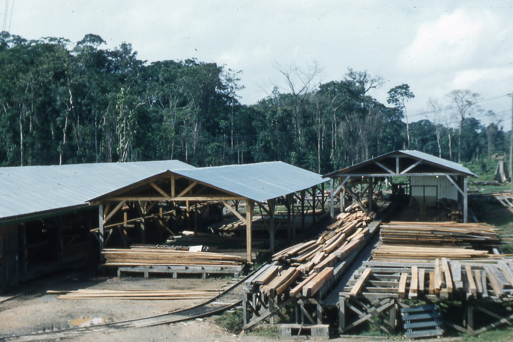 View of sawmill at Rosita Mine, part the complex of mines operated by the La Luz Gold Mine company (1936-1968). The town of Siuna, Nicaragua was the site of La Luz Mining company, which was active from 1936 to 1968. There was migration from other areas of the country to work in the gold mine during these years, including people from the coast and indigenous groups. The mine was shut down in 1968 due to damage of the Ei River Hydro Electric Plant.[1]